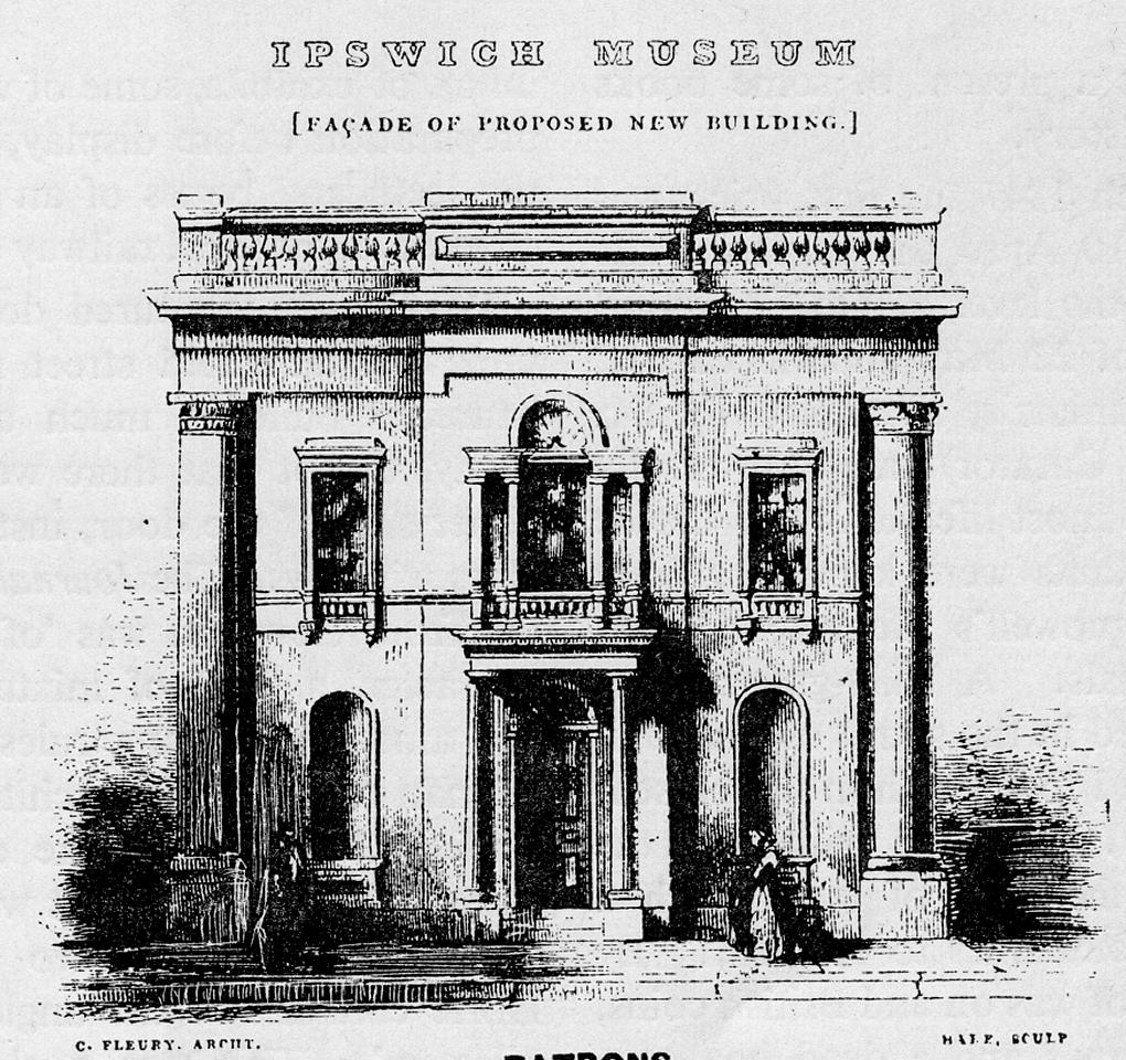 Scan from 19th century ephemera in uploader's ownership